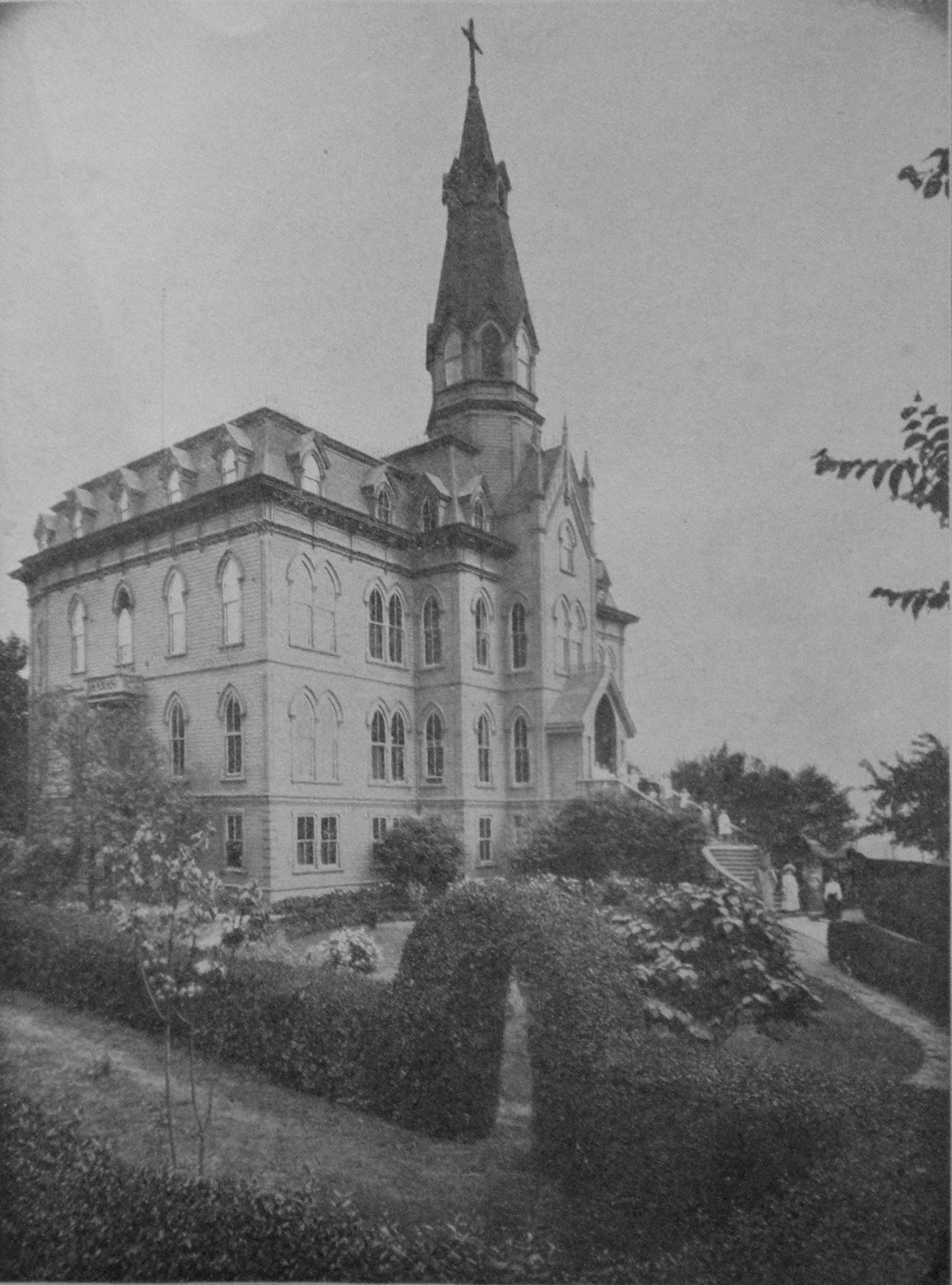 Academy of the Holy Names, Seattle, Washington, 1905. This stood at Seventh Avenue and Jackson Street on what was then Jackson Hill. Within a few years after this photo was taken, the building was demolished, Jackson Street near here was lowered by roughly 100 feet, and the school moved to its current Capitol Hill location.